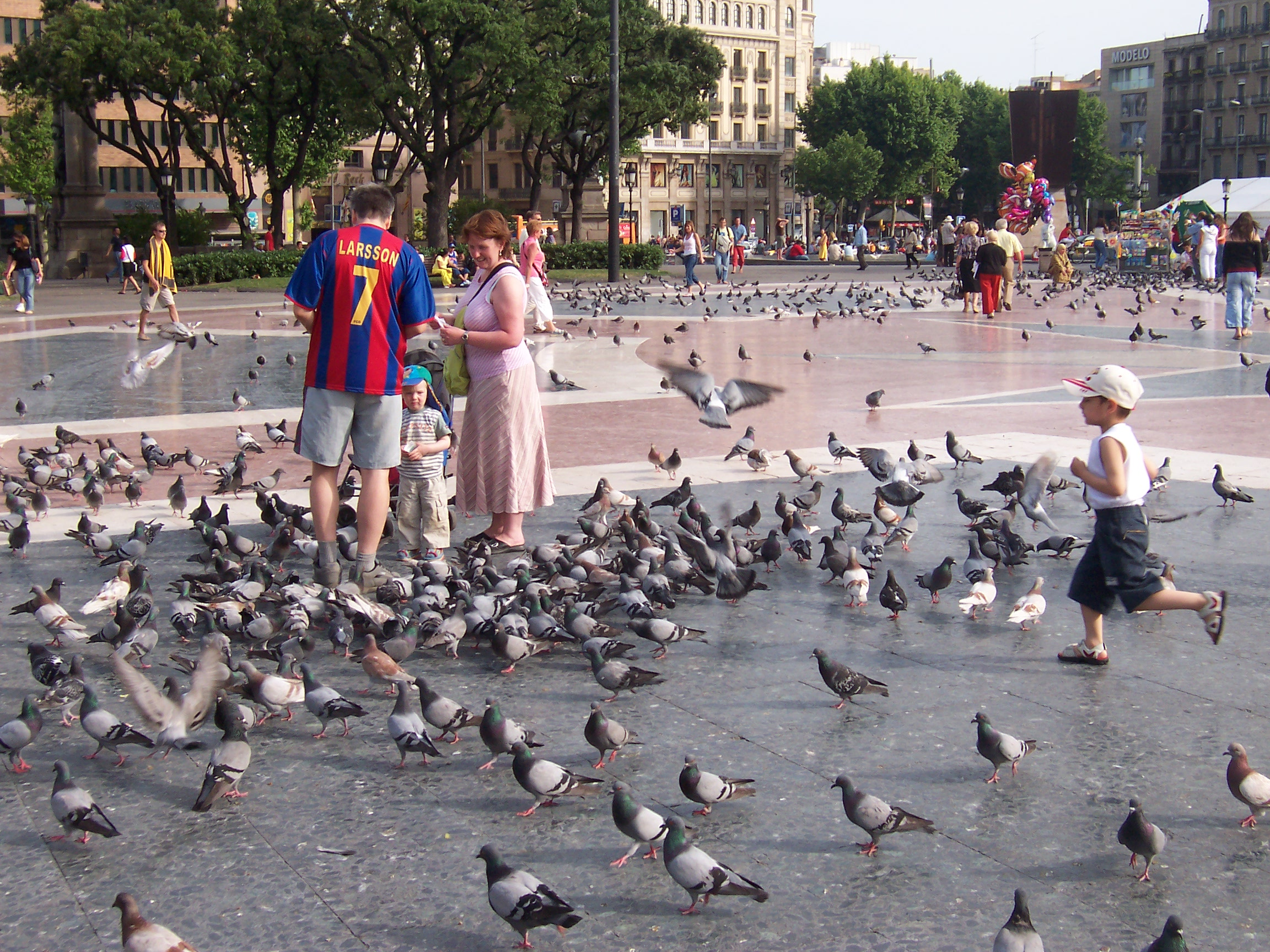 Catalunya Square in Barcelona.